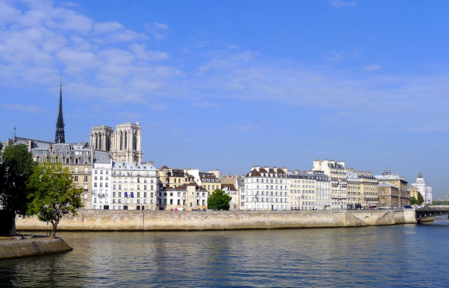 Quai aux Fleurs - Paris